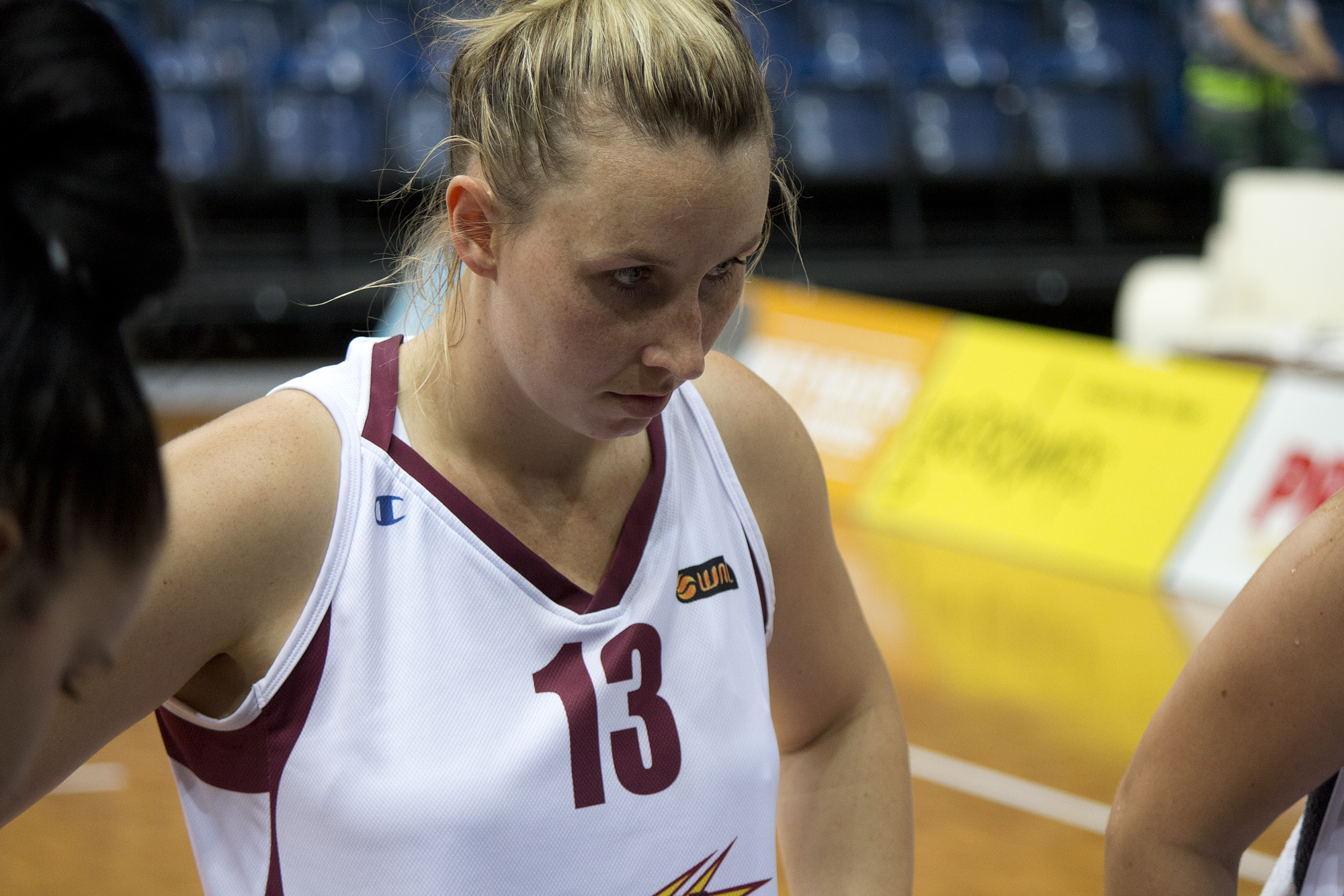 Emma Randall at the Canberra Capitals vs Logan Thunder held at AIS Arena at the Australian Institute of Sport